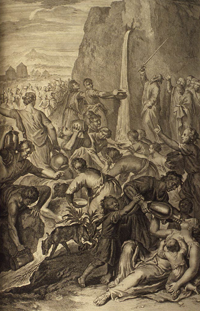 Moses Brings Water Out of the Rock; as in Numbers 20:9-11; Gerard Hoet (1648-1733), and others, published by P. de Hondt in The Hague in 1728; image courtesy Bizzell Bible Collection, University of Oklahoma Libraries